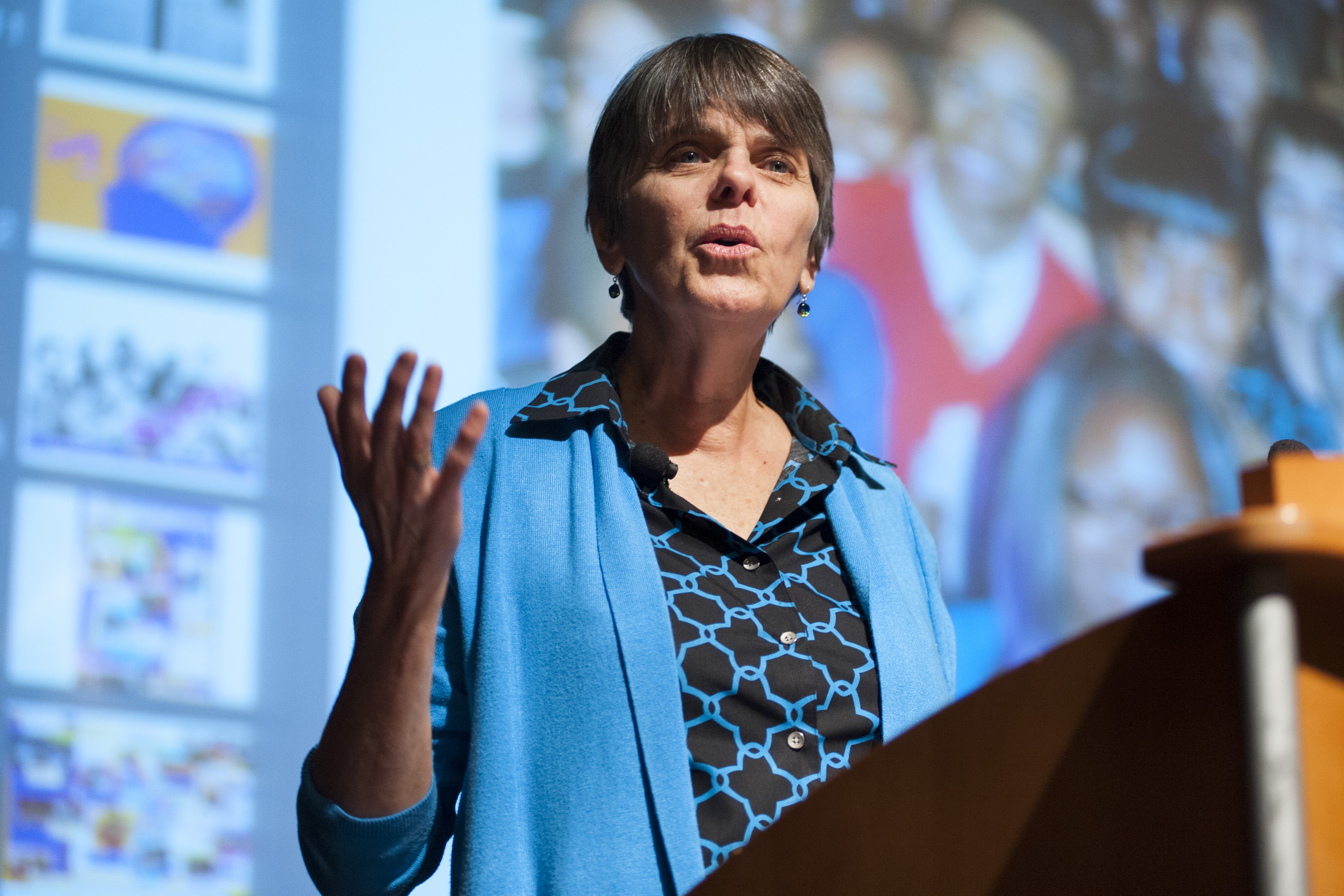 This is a photo of Mary Beth Tinker, a free speech activist involved in the Tinker v. Des Moines Supreme Court decision. This photo was taken by Eli Hiller at the E.W. Scripps School of Journalism at Ohio University.